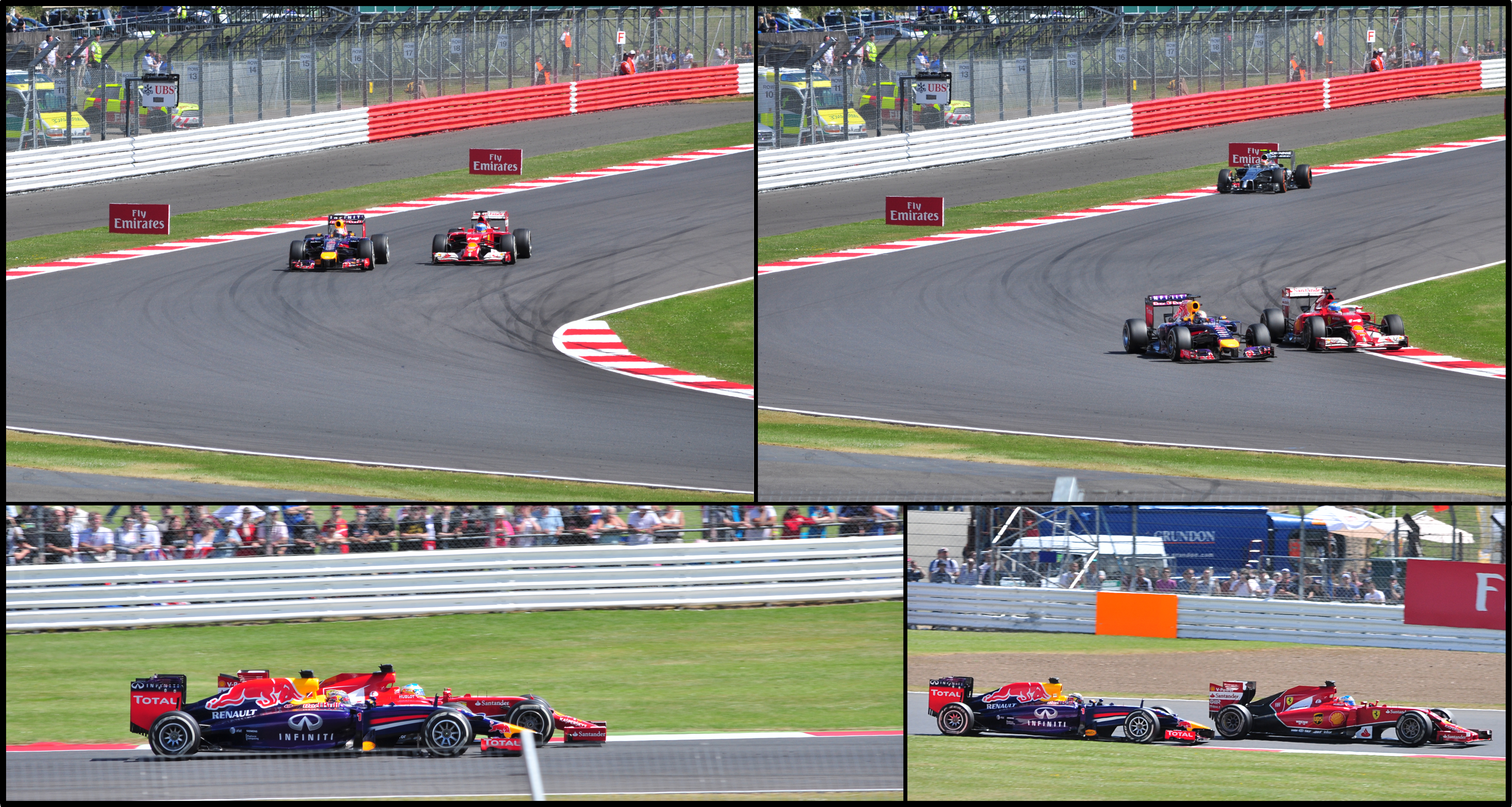 Sebastian tried this many times, he would get ahead at the entry of Brooklands, but by the exit Fernando was back ahead into Luffield.